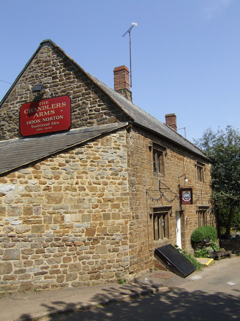 The Chandlers Arms public house, Epwell, north Oxfordshire. The building dates from the latter part of the 17th century and over its windows are hood-moulds typical of the period. The building has a 19th century rear extension. It is a public house that until 2013 was controlled by the Hook Norton Brewery.